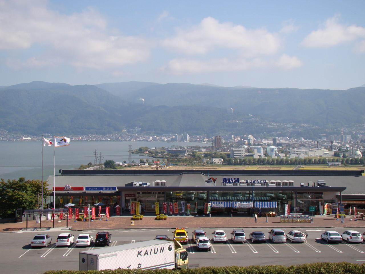 Chuo expressway Suwako service area Tokyo side Nagano Japan